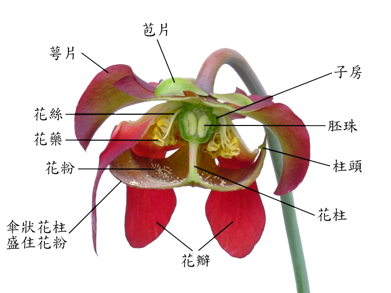 Sarracenia flower, cutaway view, with english labels of anatomical parts